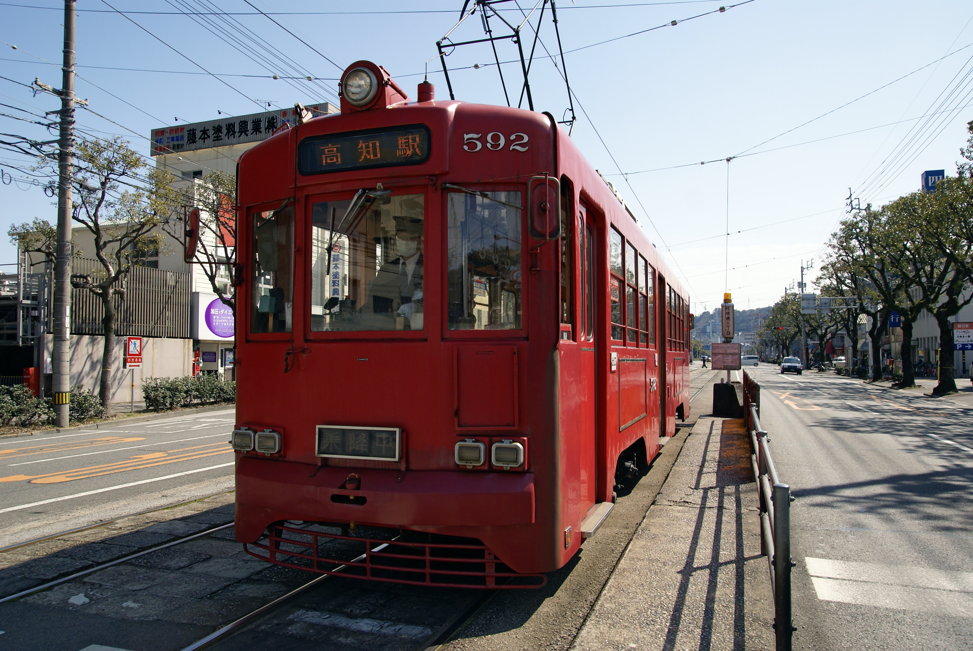 Sanbashi-dori-3chome Station in Kochi, Kochi prefecture, Japan